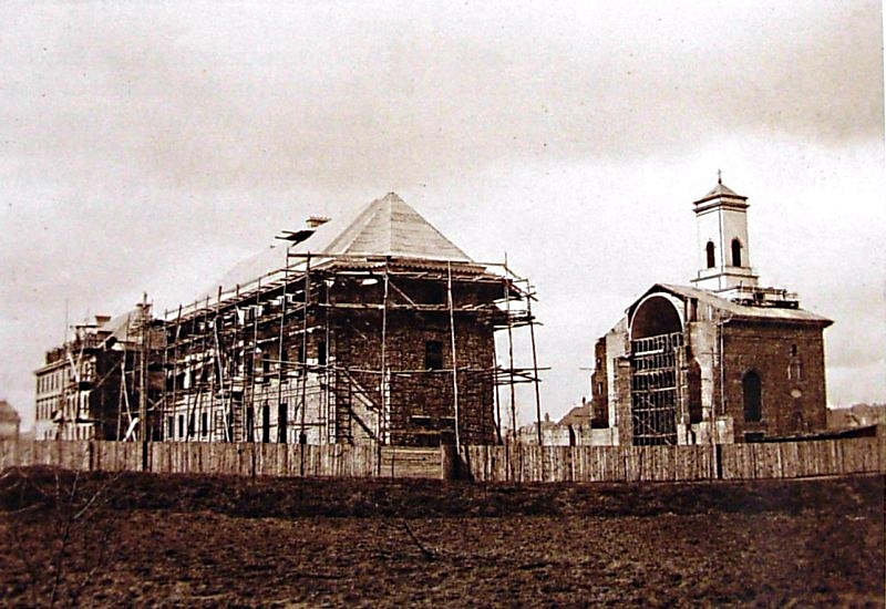 building 1927